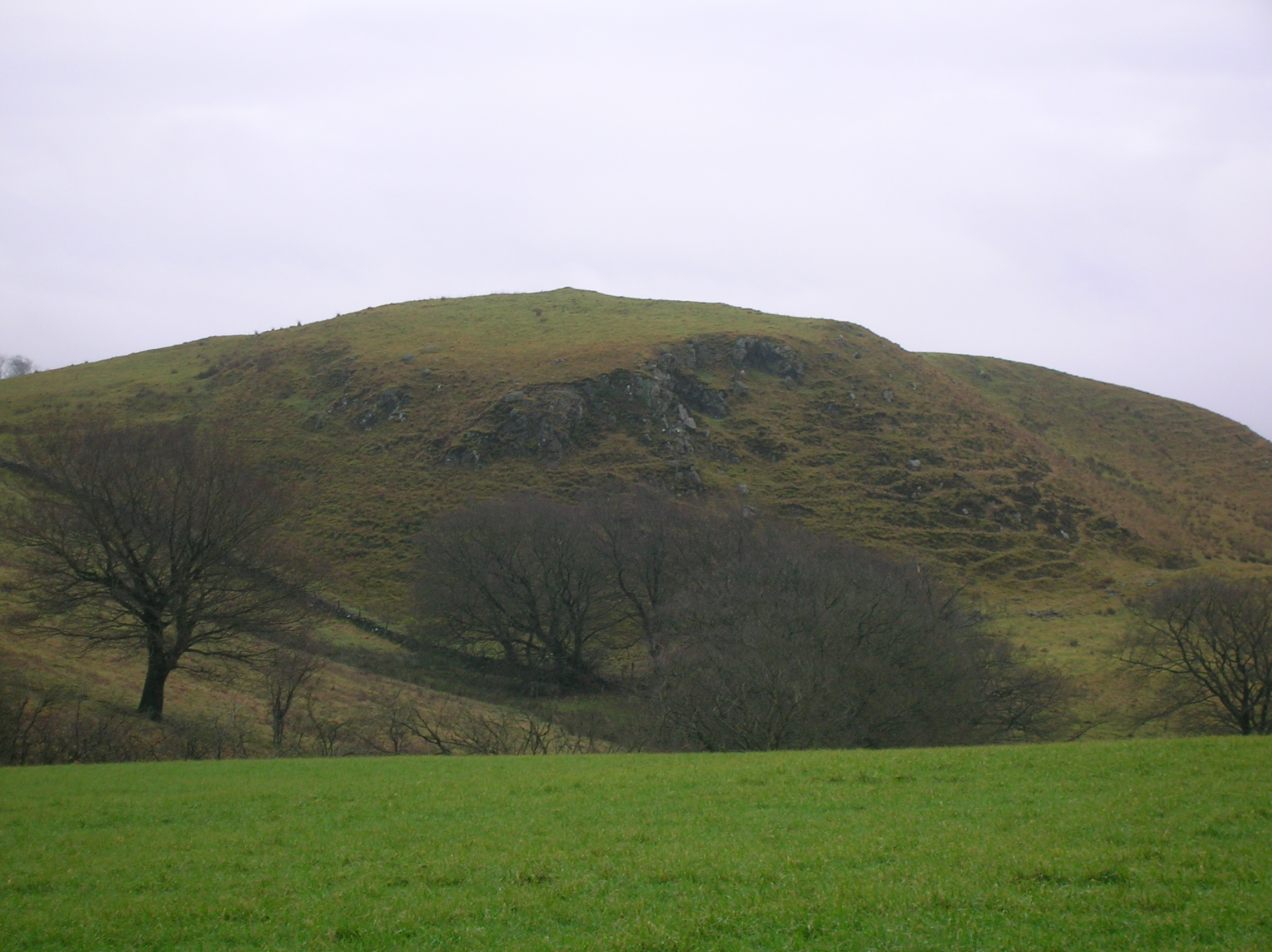 Craighead Law and the site of the old Halket Loch, Lugton, East Ayrshire, Scotland.